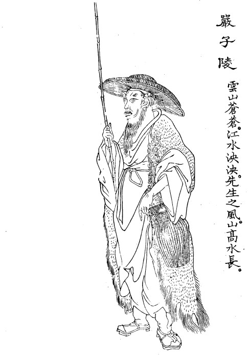 Yan Guang,The eastern han dynasty famous hermit. This image was carried on the book which is called "Wan hsiao tang-Chu chuang -Hua chuan（晩笑堂竹荘畫傳） " which was published in 1921（民国十年）.